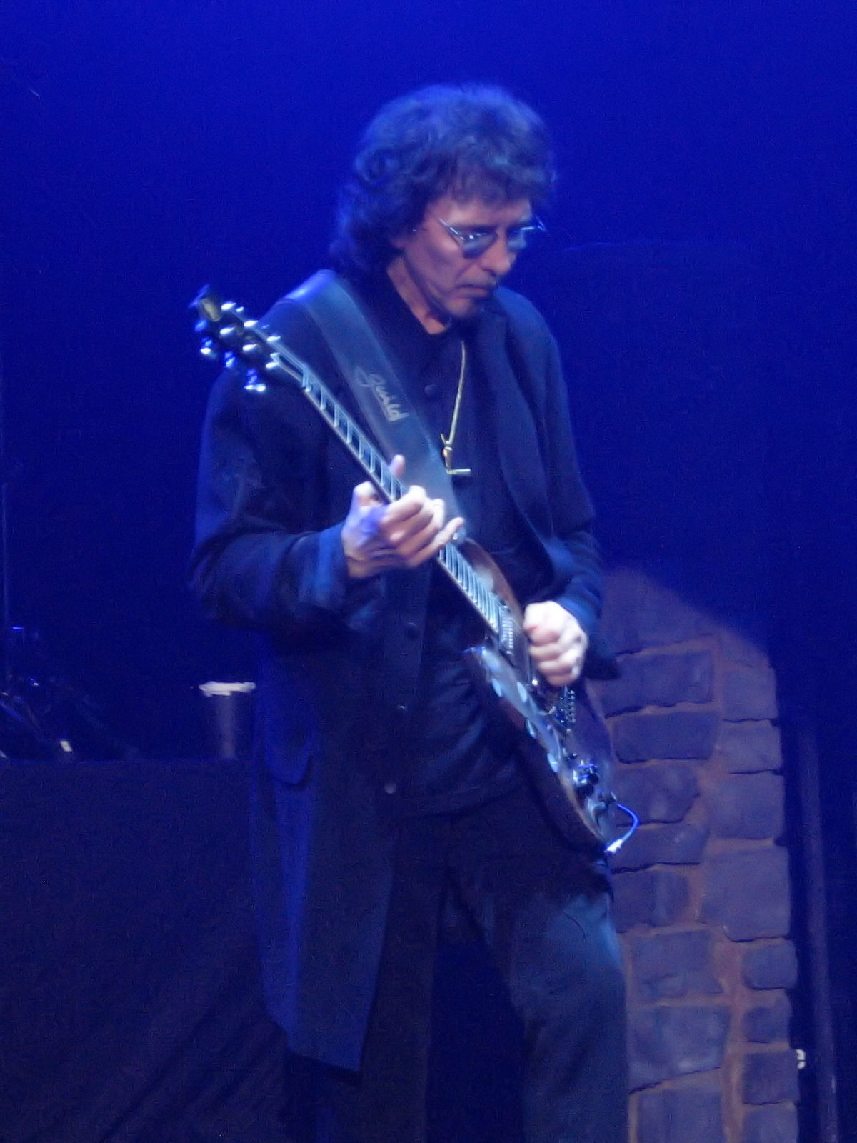 Tony Iommi from Heaven and Hell during concert in Katowice Spodek 20.06.2007